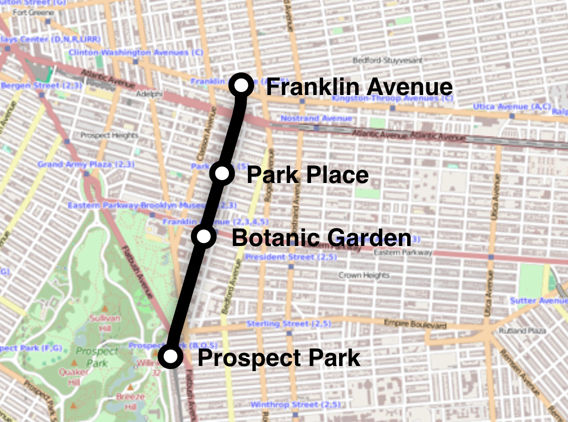 BMT Franklin Avenue Line map